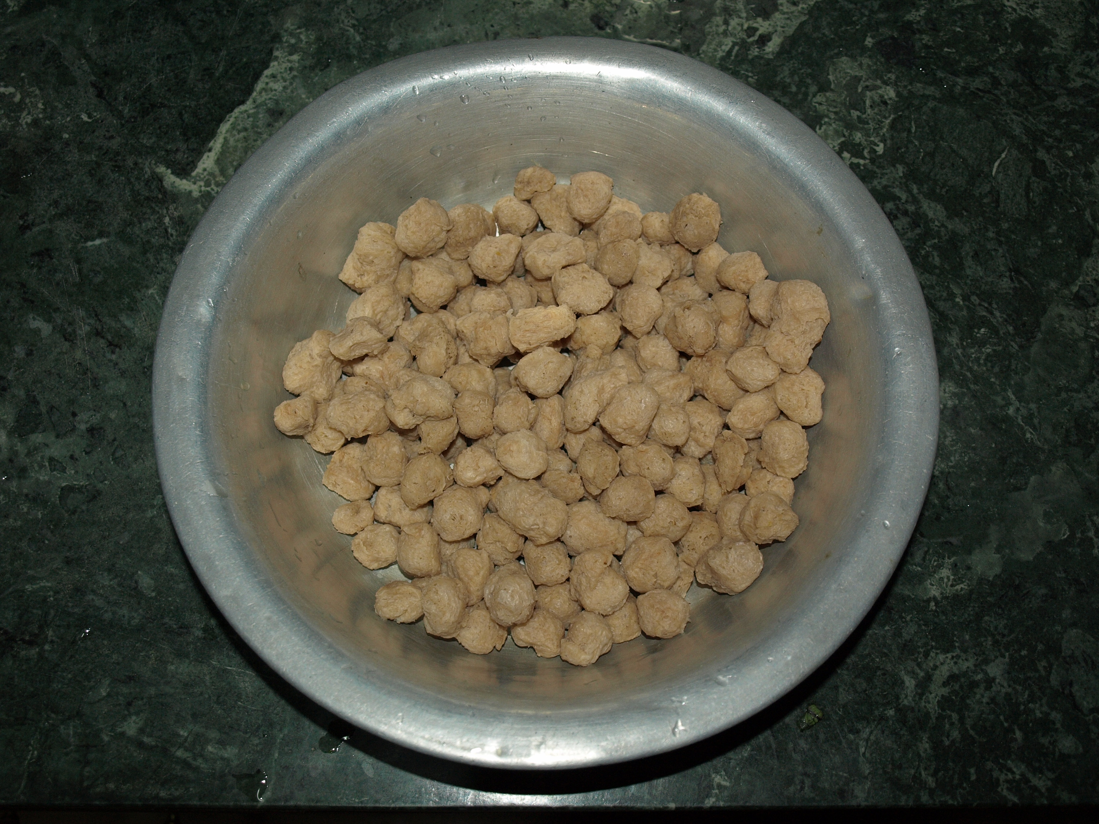 A bowl of unprepared masauras.